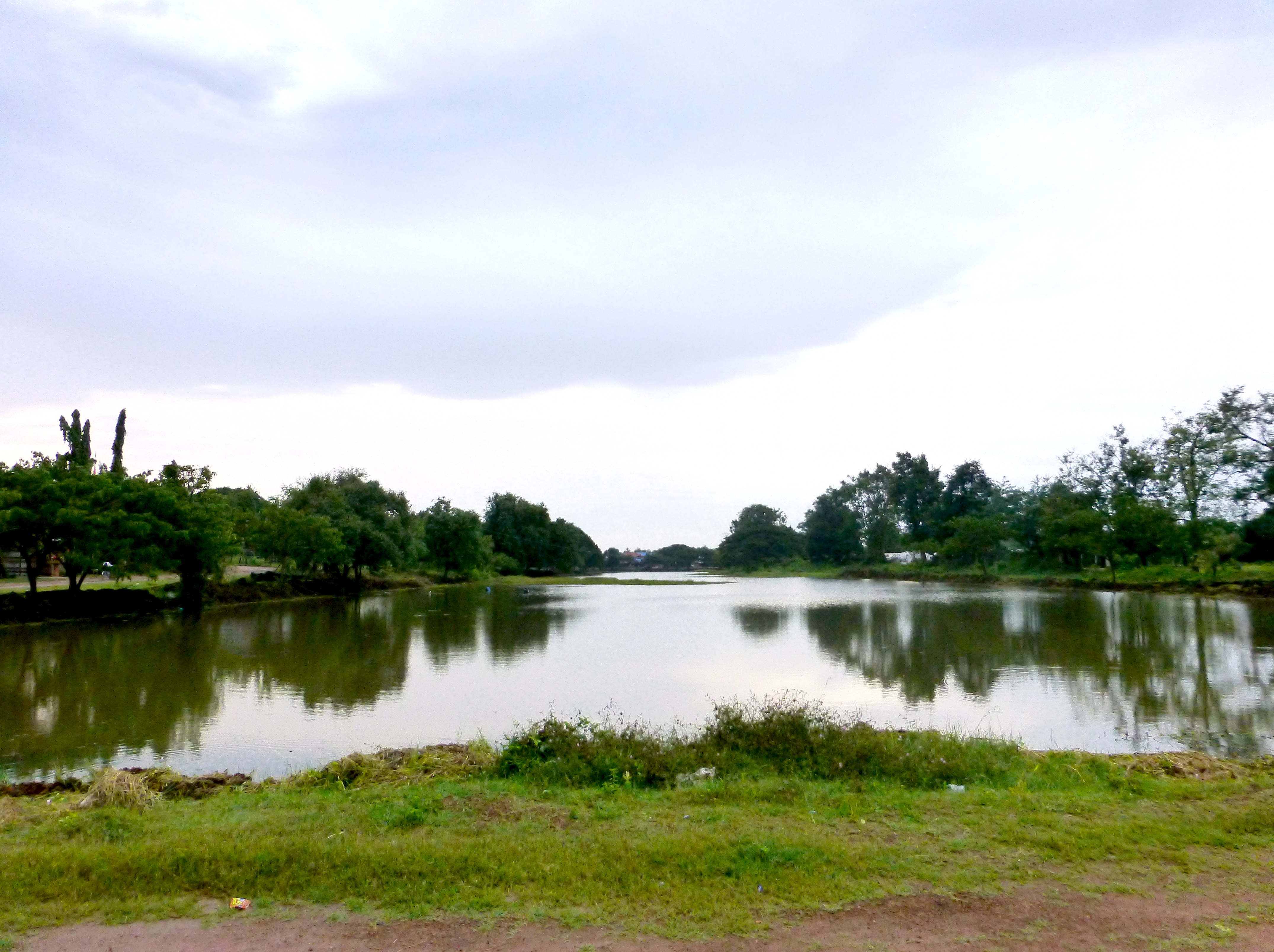 022 View of the Moat, Looking East at Banteay Chhmar Photograph from Banteay Chhmar in north-west Cambodia taken by Anandajoti.